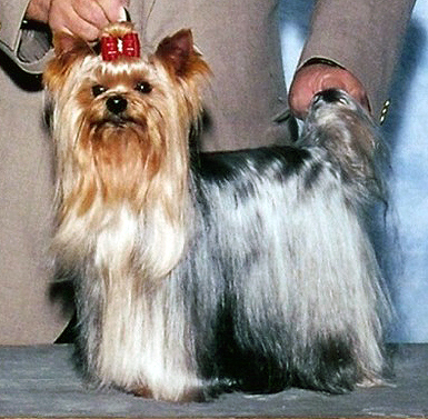 A Yorkshire Terrier named (American) Ch. WA Mozart Dolce Sinfonia (callname Mozart) owned and bred by Sabrina A. Parisi.